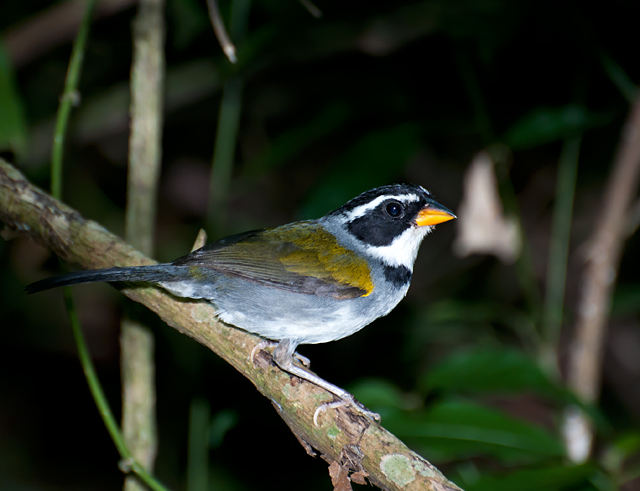 A Half-collared Sparrow in Piraju, São Paulo, Brazil.